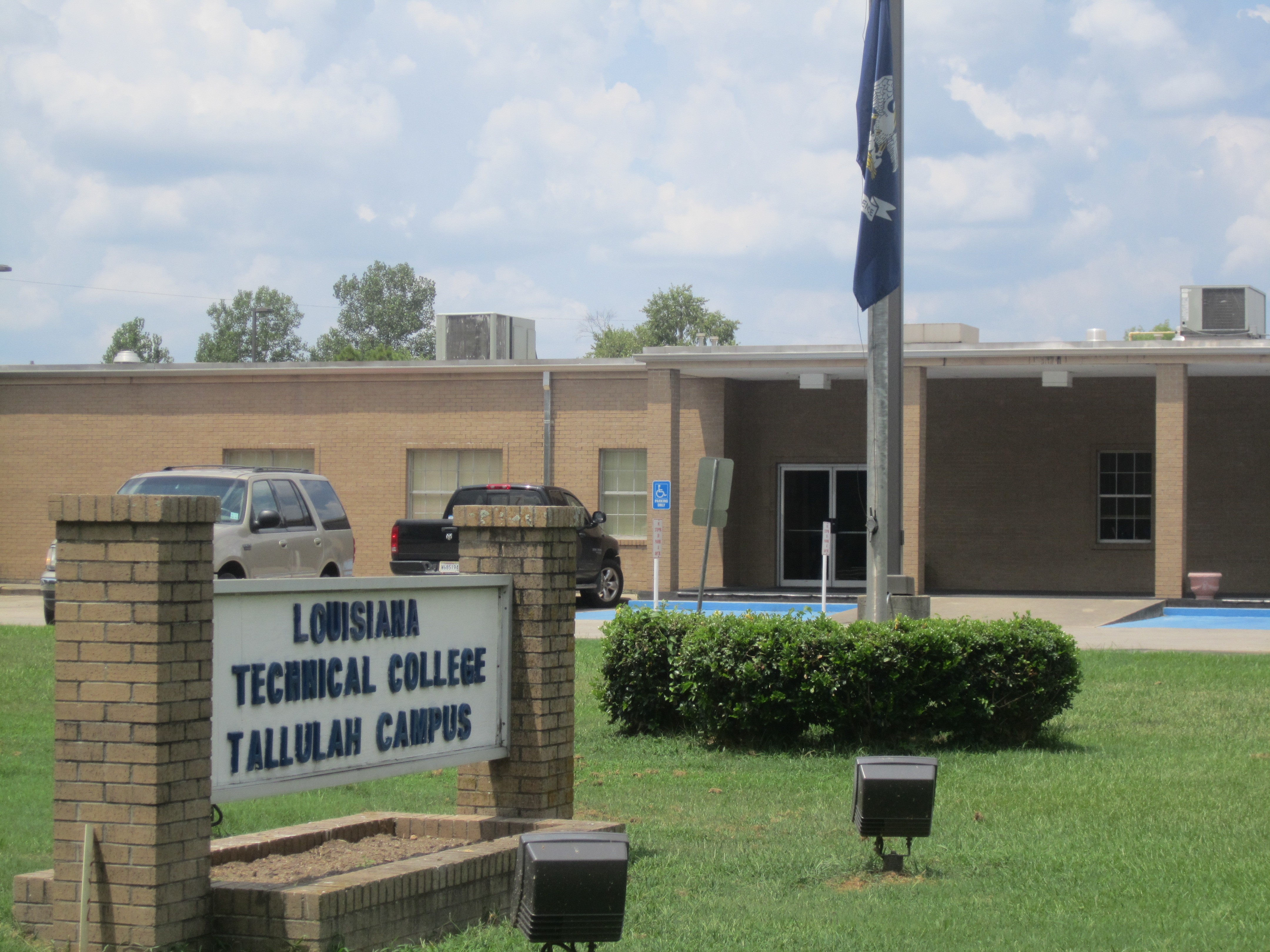 Louisiana Technical College, Tallulah, Louisiana